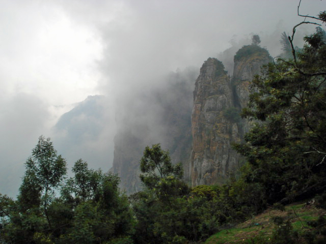 A view of region around Kodaikanal